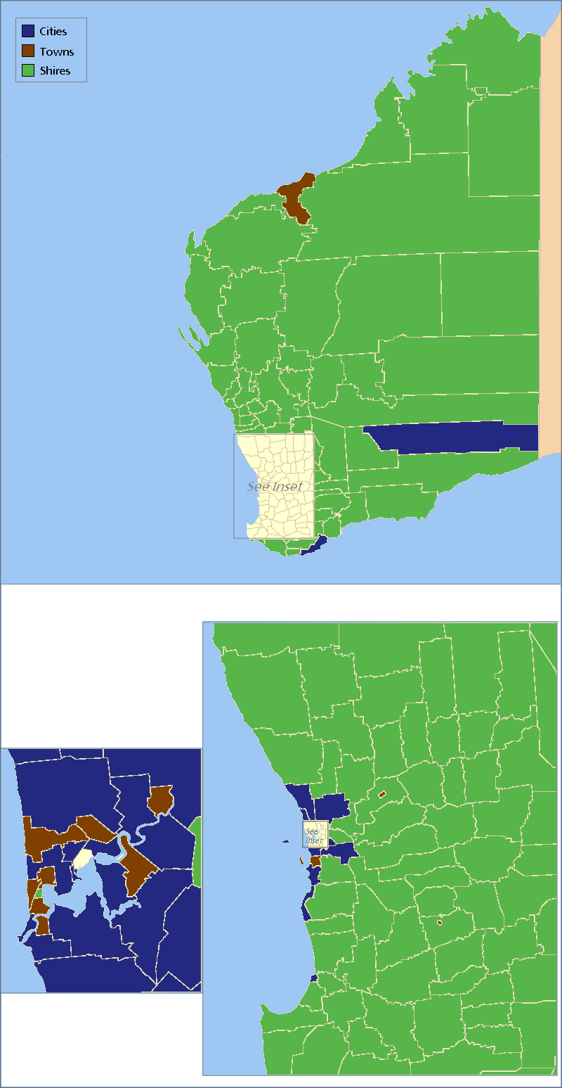 Types of Local Government Areas in Western Australia